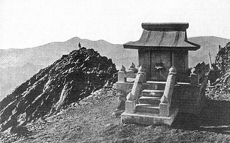 Nikata-shi(新高祠), or Nitaka Shrine in Nitaka-yama (currnet Mt. Jade), Taiwan